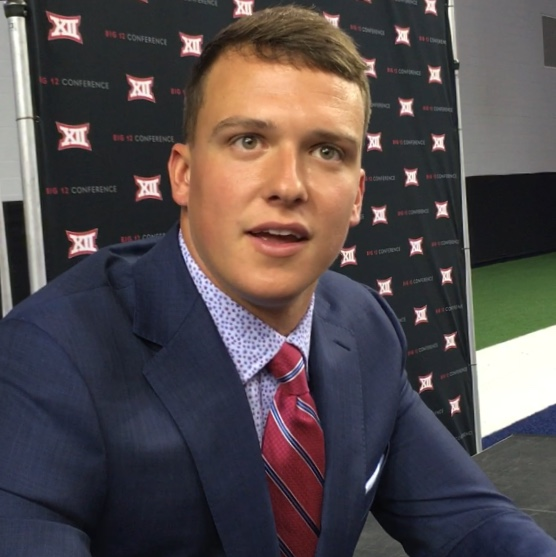 David Sills V, wide receiver of the West Virginia Mountaineers football team, at the 2018 Big 12 Conference Media Days in Frisco, Texas.